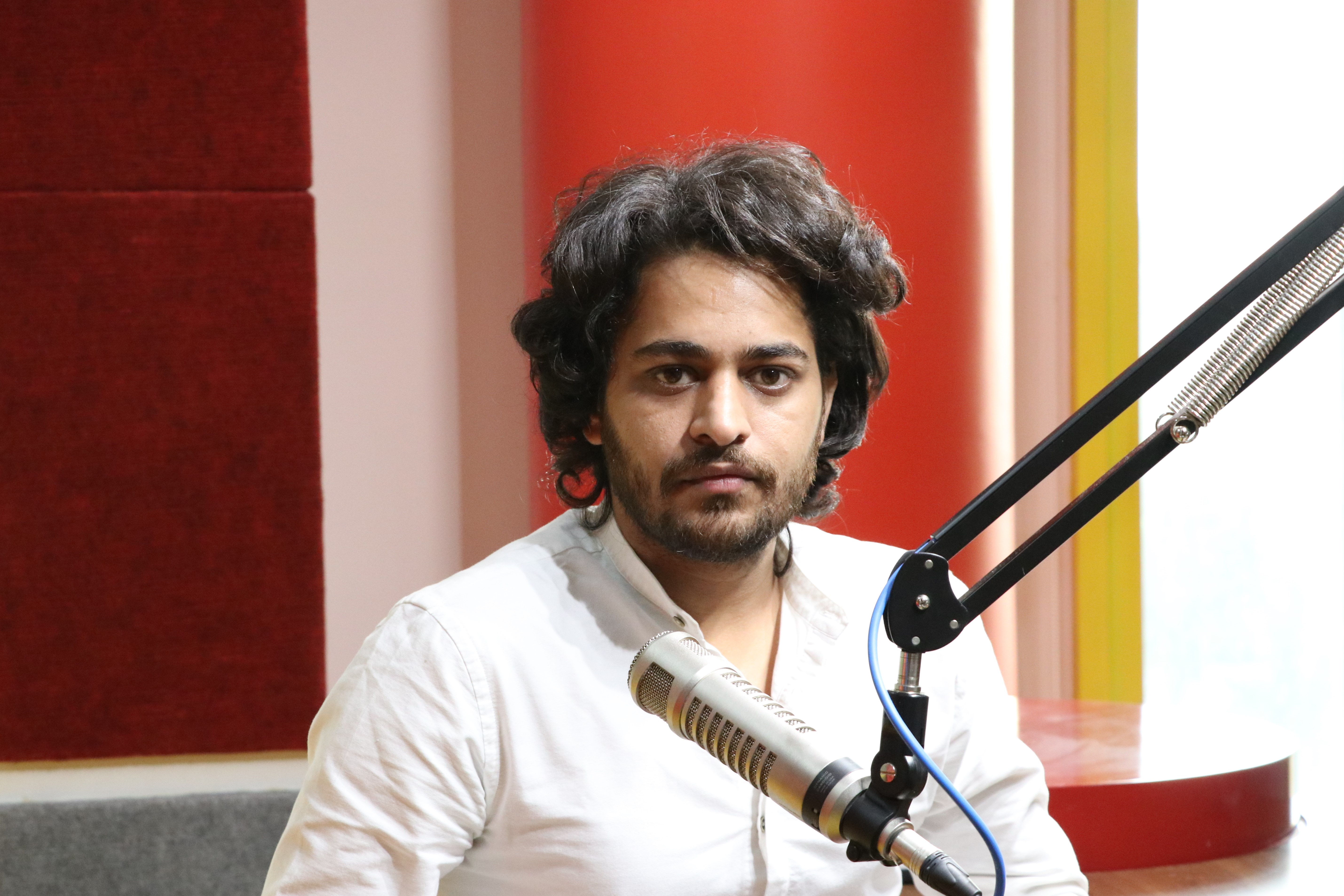 Gurshabad during Golak Bugni Bank Te Batua promotions